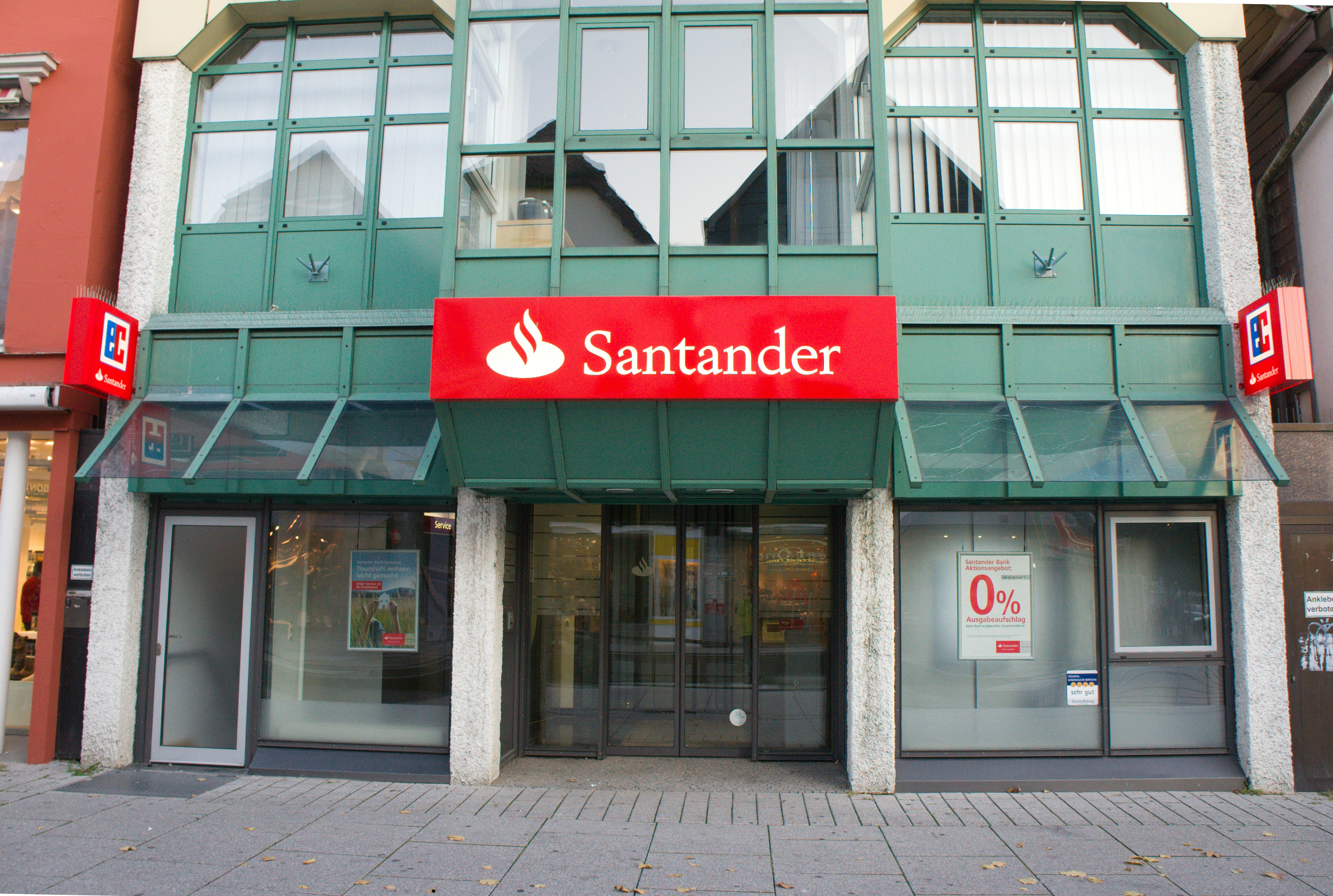 Santander bank in Göppingen, Germany.